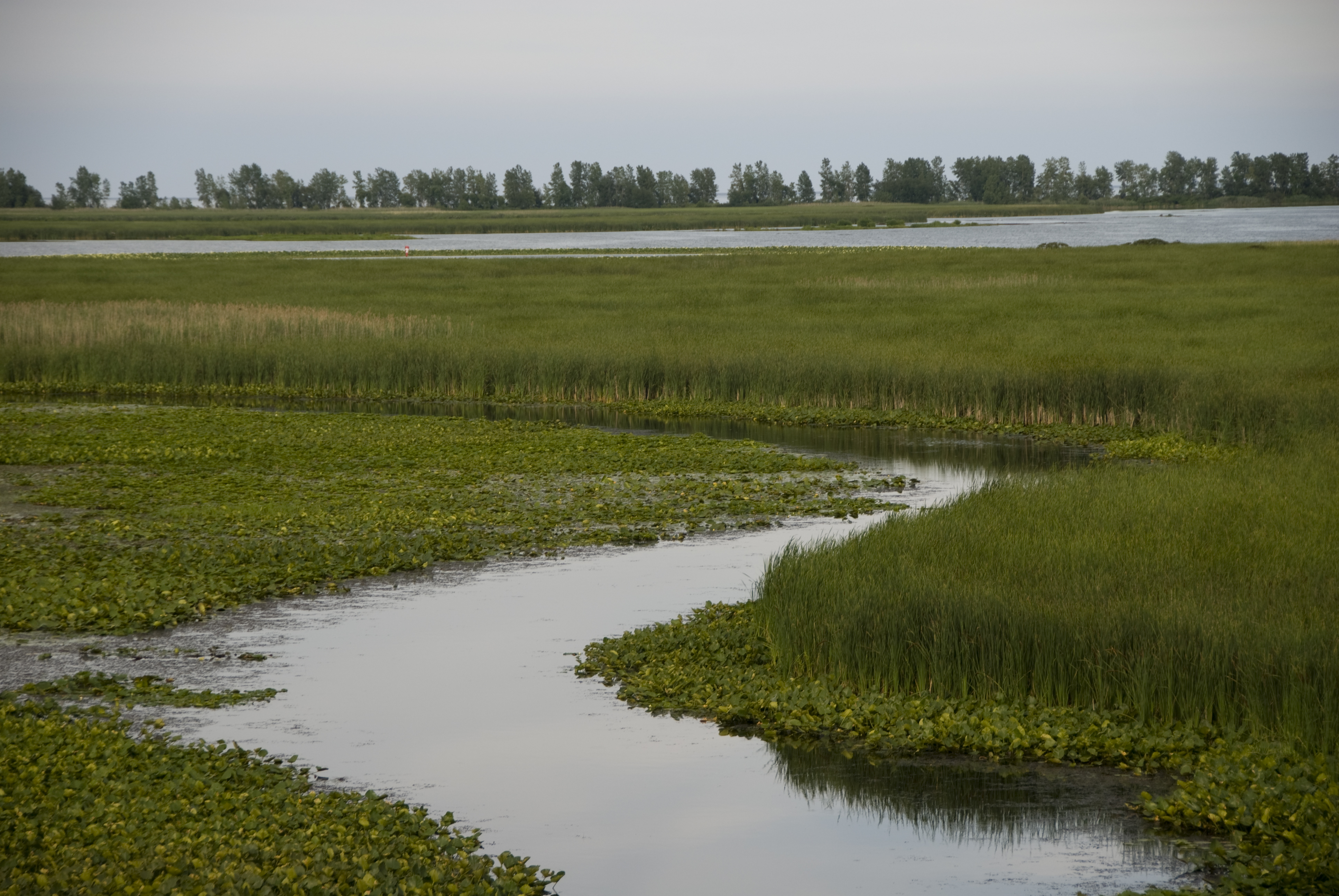 The March Boardwalk at Point Pelee National Park in Ontario, Canada